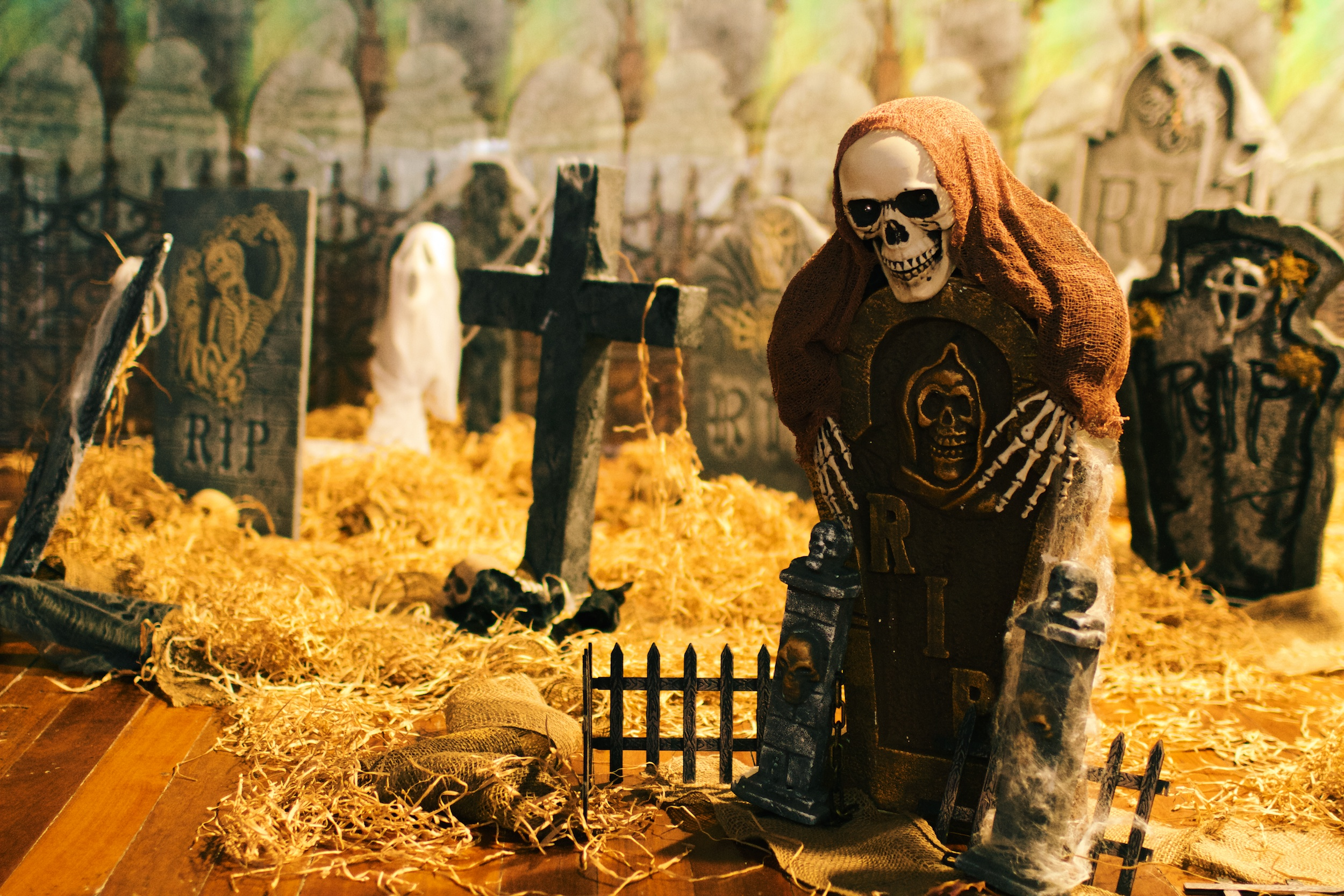 Halloween display at Atlassian in Waverely, Sydney.